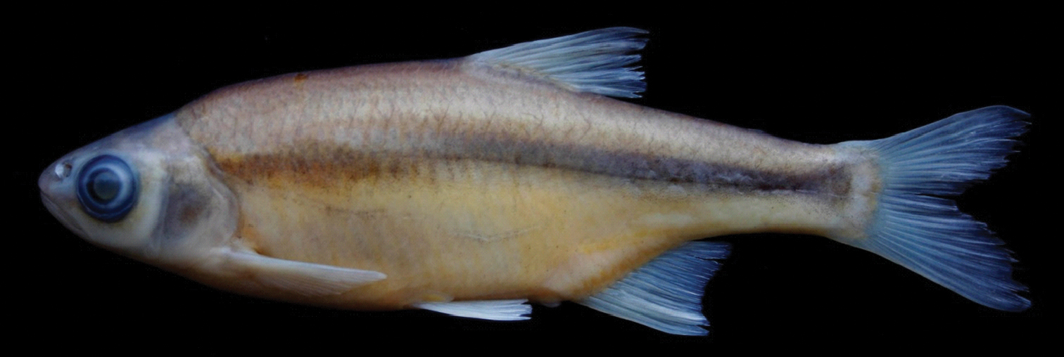 Alburnoides manyasensis; Turkey: Balıkesir Province: Koca Stream, Lake Manyas drainage, holotype, FFR 01069, female, 82 mm SL.